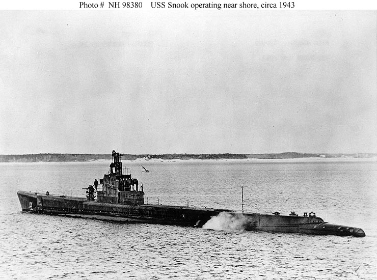 USS Snook (SS-279), operating near shore, circa 1943. Official U.S. Navy Photograph, # NH 98380, from the collections of the Naval Historical Center.